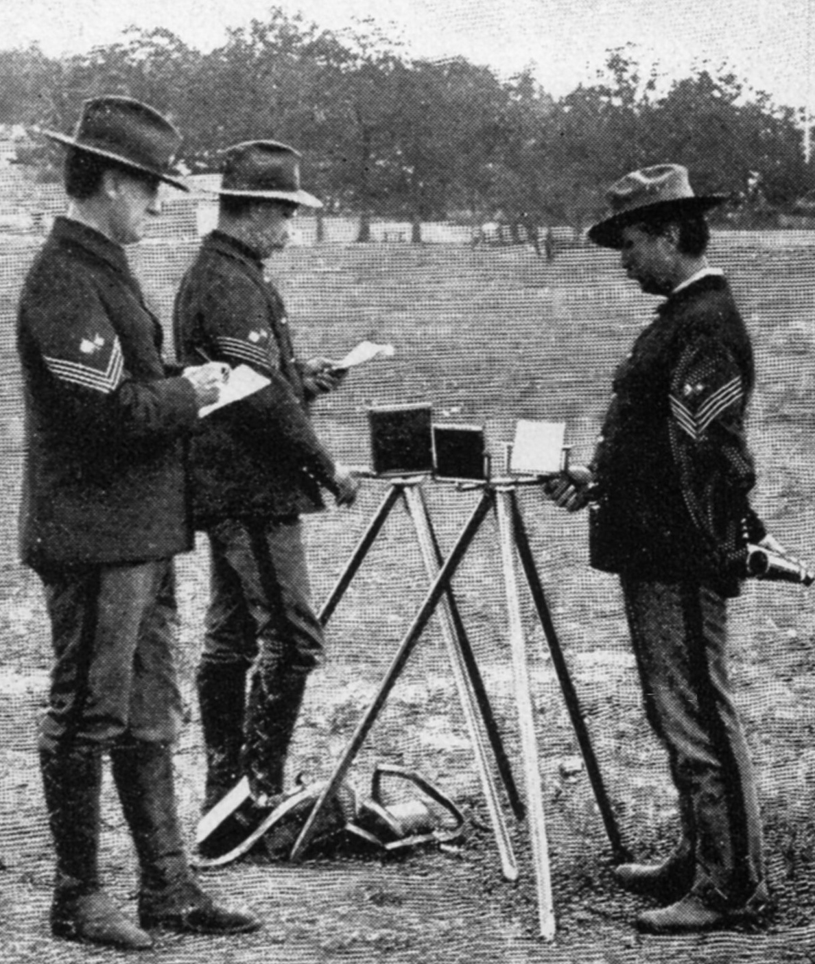 A combination photo / engraving (photo with backdrop replaced by engraving) of US Army Signal Corps personnel training with Heliograph ca July 1898 while waiting to be sent to Cuba for the Spanish-American War. From "With the Waiting Army" by Irving Bacheller, July 1898, "The Cosmopolitan", page 316. This is a crop of the bottom figure, which is titled: Signaling with the Heliograph. Note the crossed-flags badge of the Signal Corps on their sleeves. From the accompanying text, this could have been from the encampment at Chickamauga, or Tampa